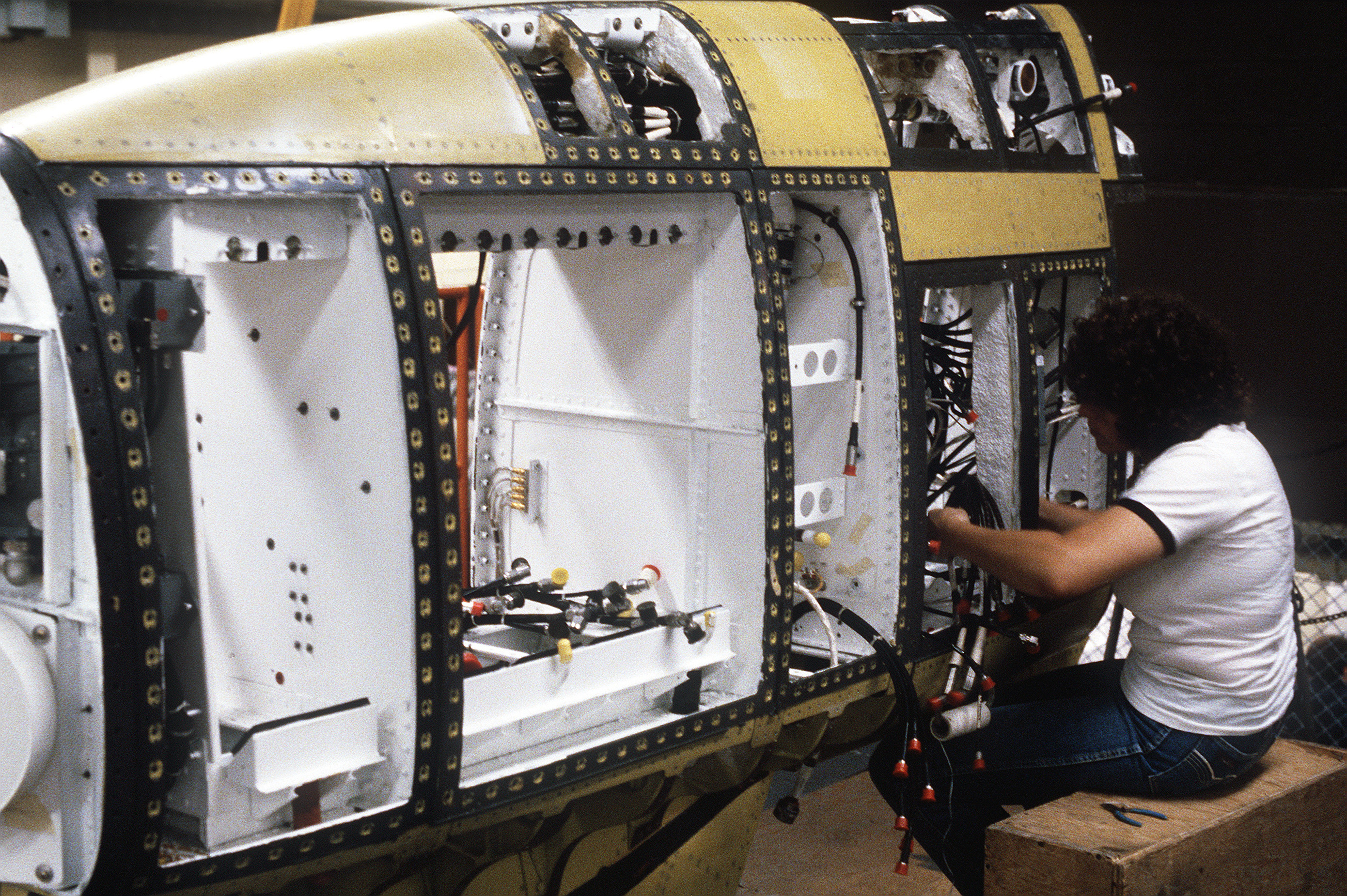 An employee of Grumman Riverhead Plant, Grumman Aerospace Corporation, rewires the tail section of an F-111 aircraft. The F-111 is being converted into an EF-111A model aircraft. Location: LONG ISLAND, NEW YORK (NY) UNITED STATES OF AMERICA (USA)